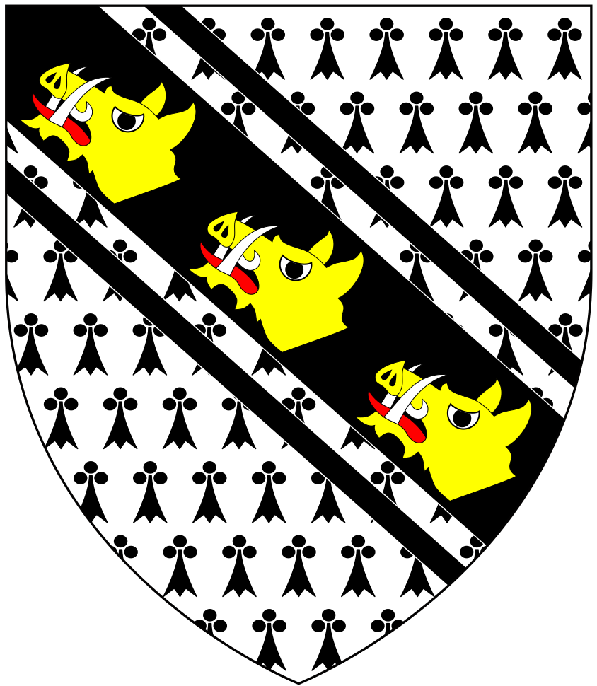 Canting arms of Bowerman of Culm Davy and of Whitehall, both in the parish of Hemyock in Devon: Ermine, on a bend cotised sable three boar's heads couped or (Vivian, Lt.Col. J.L., (Ed.) The Visitations of the County of Devon: Comprising the Heralds' Visitations of 1531, 1564 & 1620, Exeter, 1895, p.108). The Bowerman family was descended from Nicholas Bourman of Brooke in the Isle of Wight, by his wife Elizabeth Russell, a sister of John Russell, 1st Earl of Bedford (c.1485-1555)